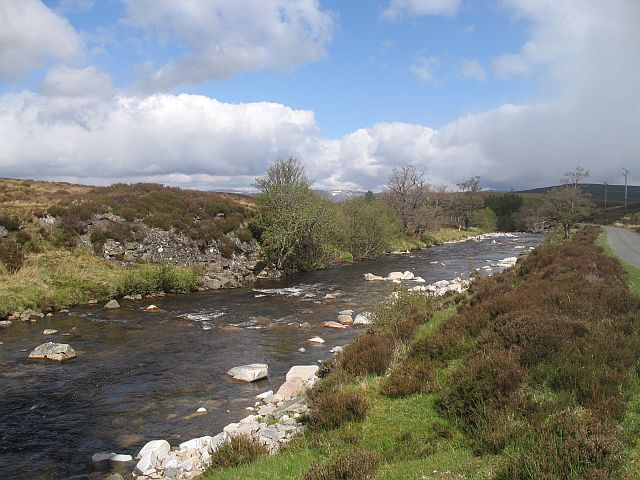 River Tromie The road to the Tromie Dam running beside the river.